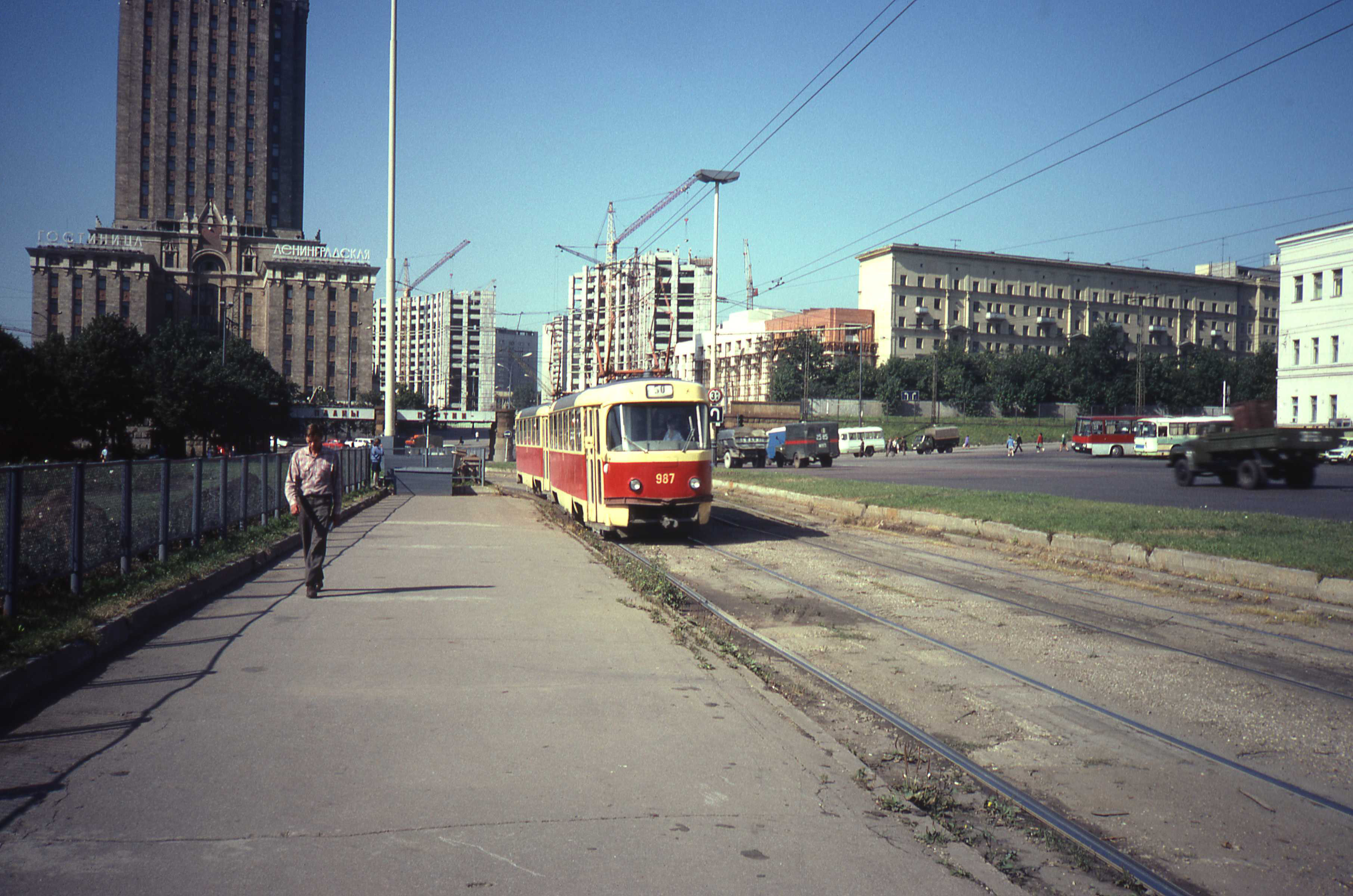 Tram #50 at Komsomolskaya Square in 1982 in Moscow